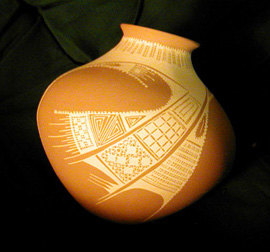 Photograph by Richard Culatta